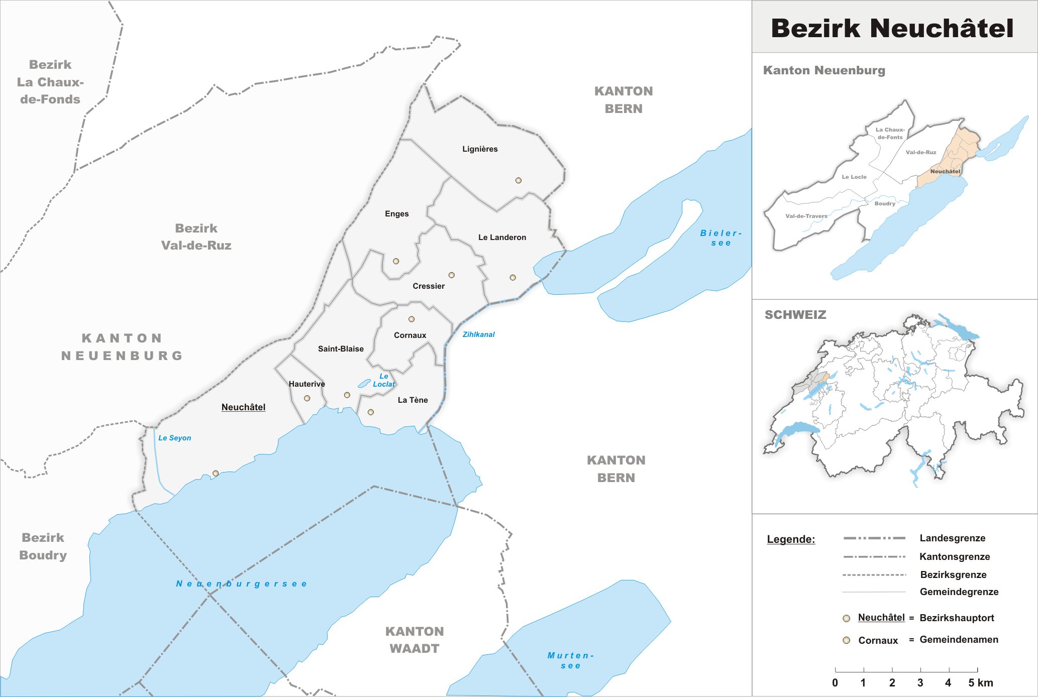 Municipalities in the district of Neuchâtel to 2009